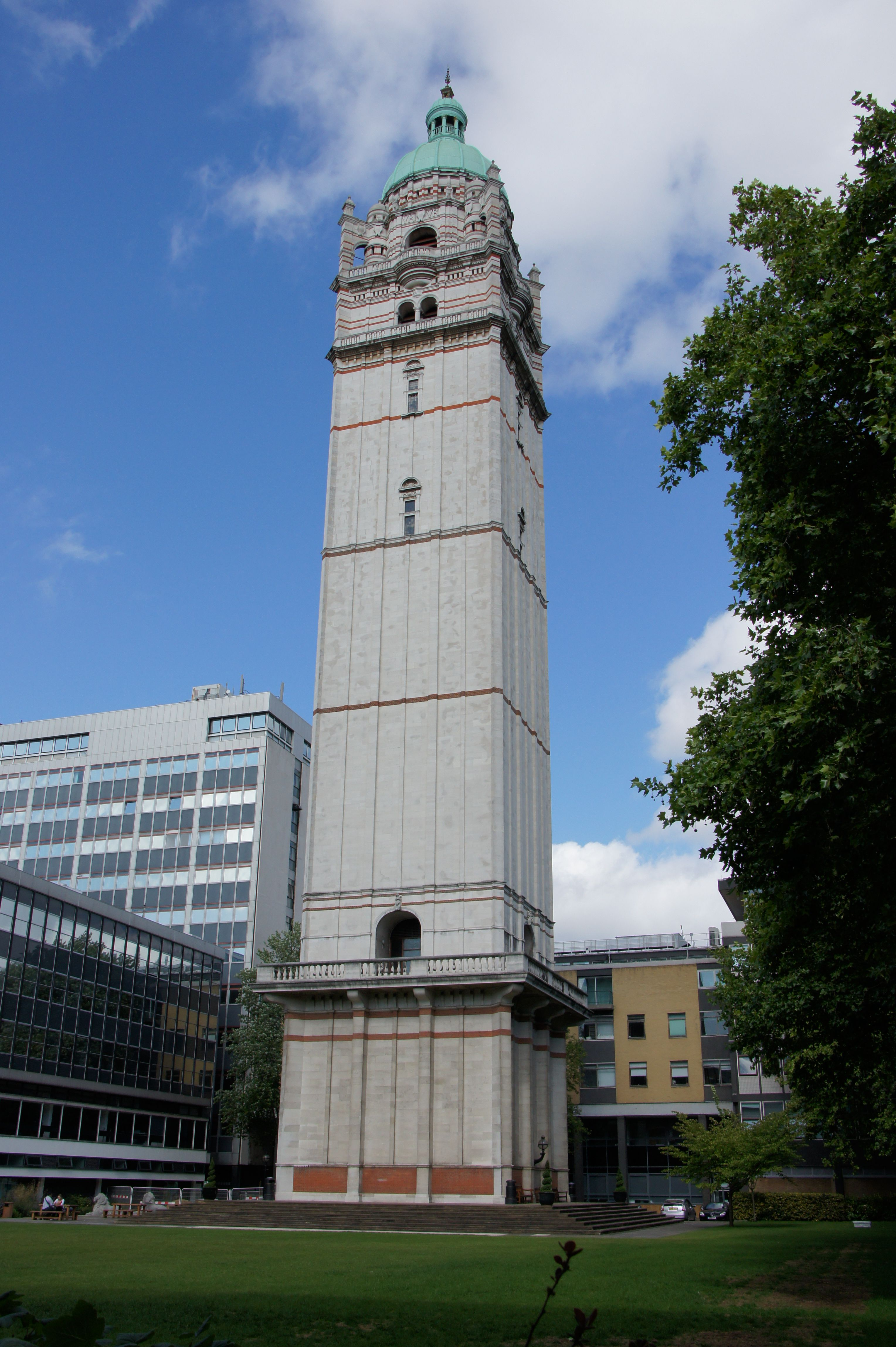 The reflected and reflectee, Imperial College, London